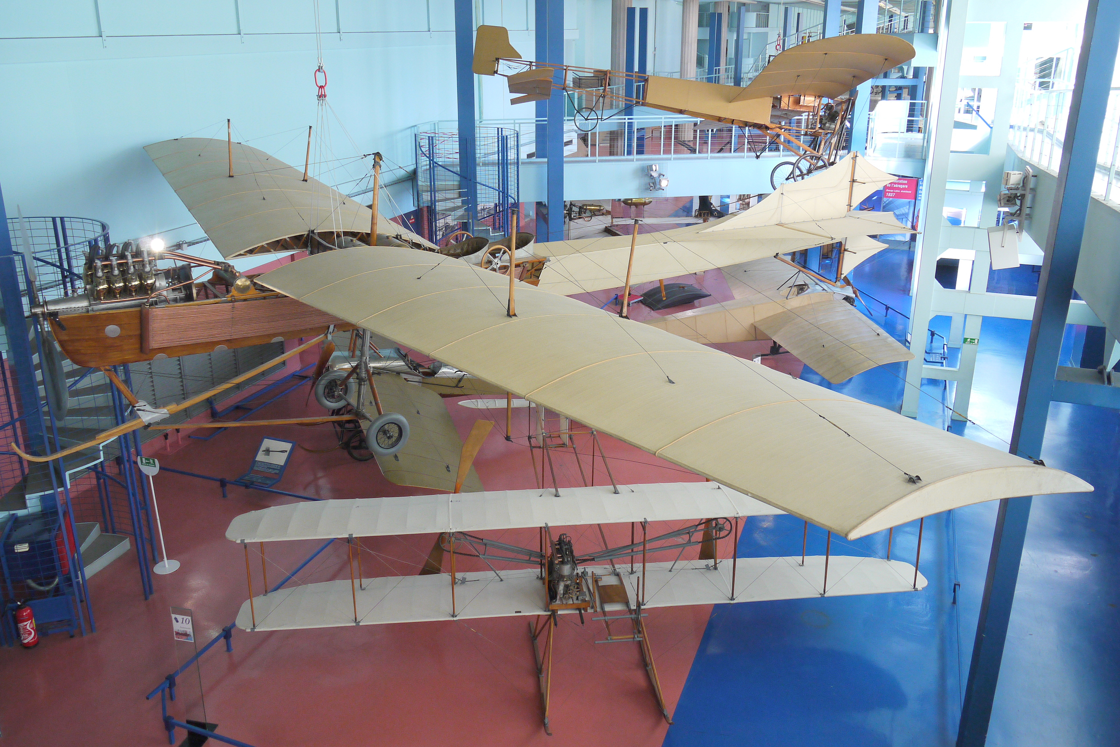 Antoinette VII Airplane (1909), Museum of Air and Space Paris, Le Bourget (France)